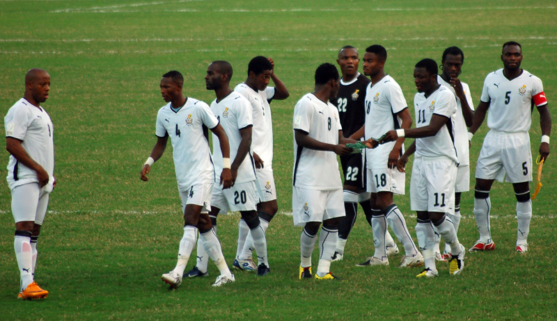 The Ghana national team at the 2008 African Cup of Nations 22-Richard Kingson; 2-Hans Sarpei, 4-John Paintsil, 5-John Mensah, 18-Eric Addo; 6-Anthony Annan, 8-Michael Essien 2, 11-Sulley Muntari, 20-Quincy Owusu Abeyie; 3-Asamoah Gyan, 9-Junior Agogo.